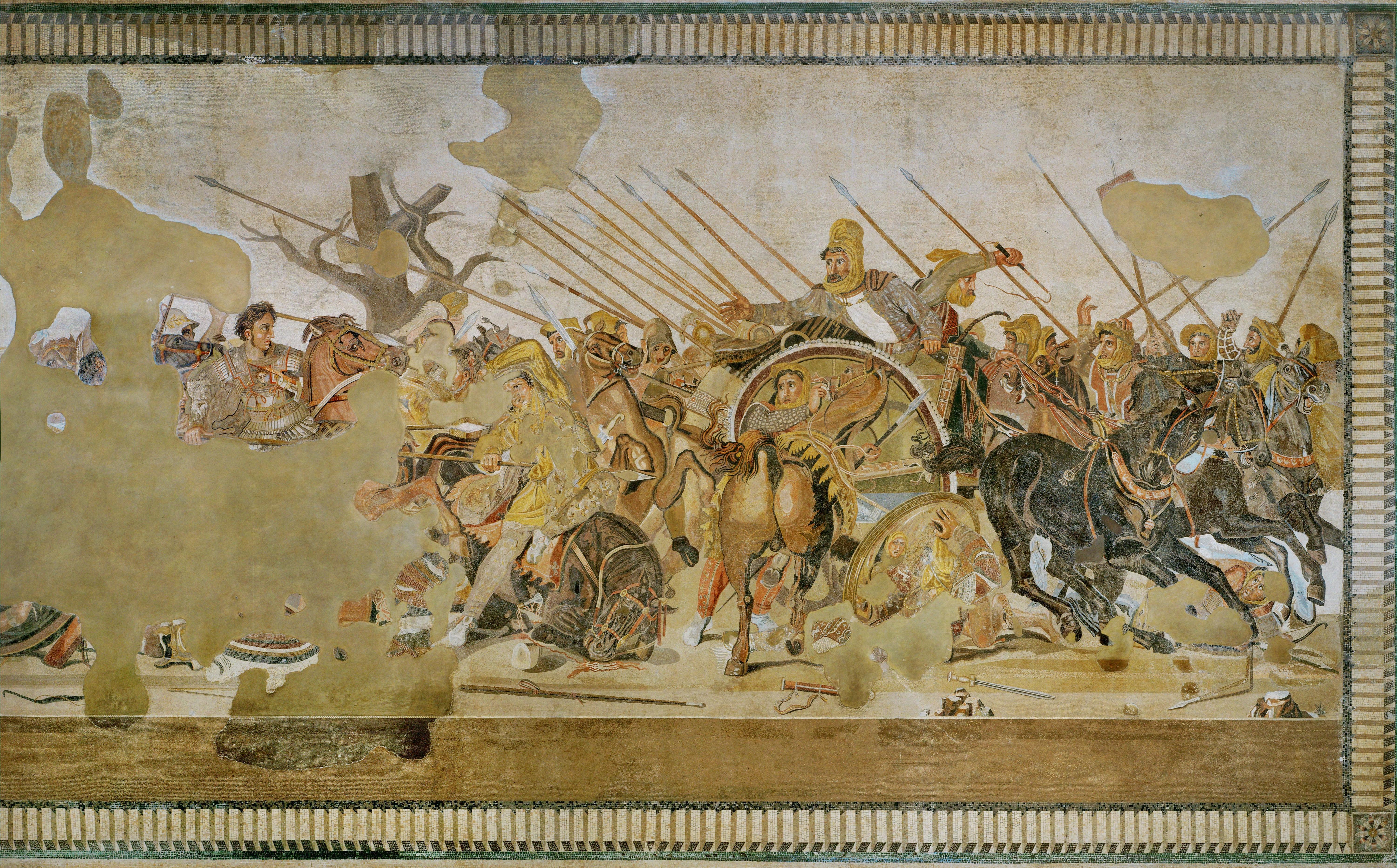 Alexander Mosaic (depicting the Battle of Issus or the Battle of Gaugamela), from the House of the Faun, Pompeii (VI, 12, 2), Roman era, National Archaeological Museum, Naples, Italy.